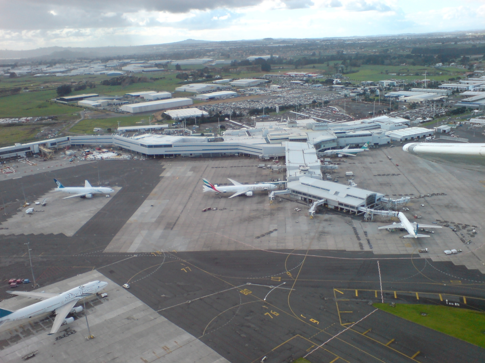 Views over Auckland International Airport, Auckland City, New Zealand, taking from a light plane taking off for Great Barrier Island westwards, then circling around to the north and east in the image series.